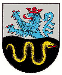 Coat of arms of Unkenbach